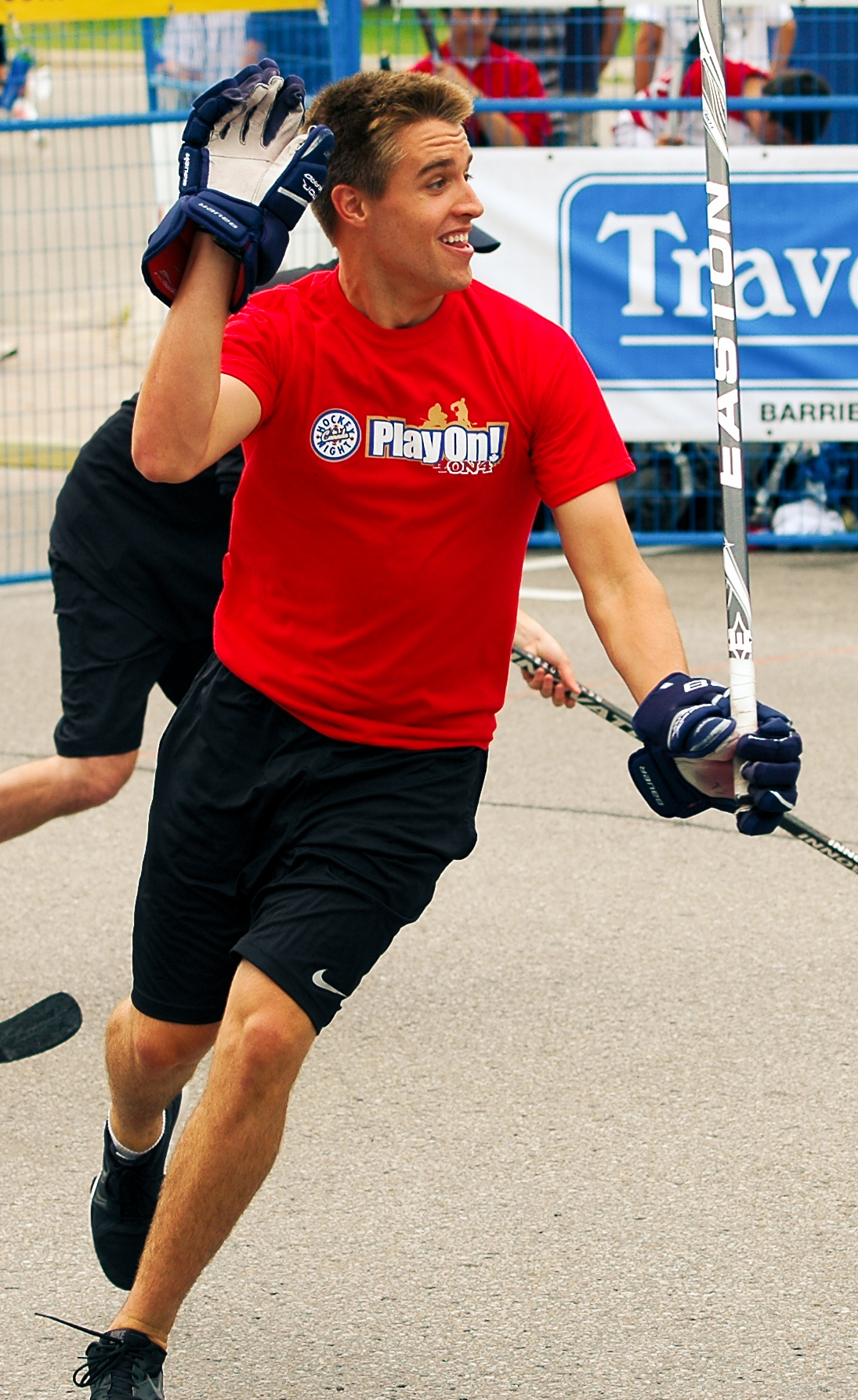 Aaron Ekblad at a community event in Barrie, Ontario